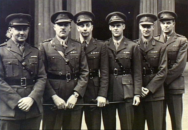 London, England. 1944-10-10. Australian Army Officers in the courtyard of Buckingham Palace at the conclusion of the investiture when they received their decorations from His Majesty King George VI. Left to right: Major W. C. Redford, Deputy Assistant Quartermaster General, HQ Australian Army Staff, UK; Captain C. F. W. Baylis, AIF Transport Camp, UK; Major S. J. M. Goulston, Deputy Assistant Director of Medical Services, HQ Australian Army Staff, UK; Major B. Williams, Air Liaison with UK Forces; Brigadier D. N. Veron, HQ Australian Army Staff, UK; Captain F. N. Street, Australian Army Medical Corps, 4 AIF Reception Camp, UK and HQ AIF Reception Group.